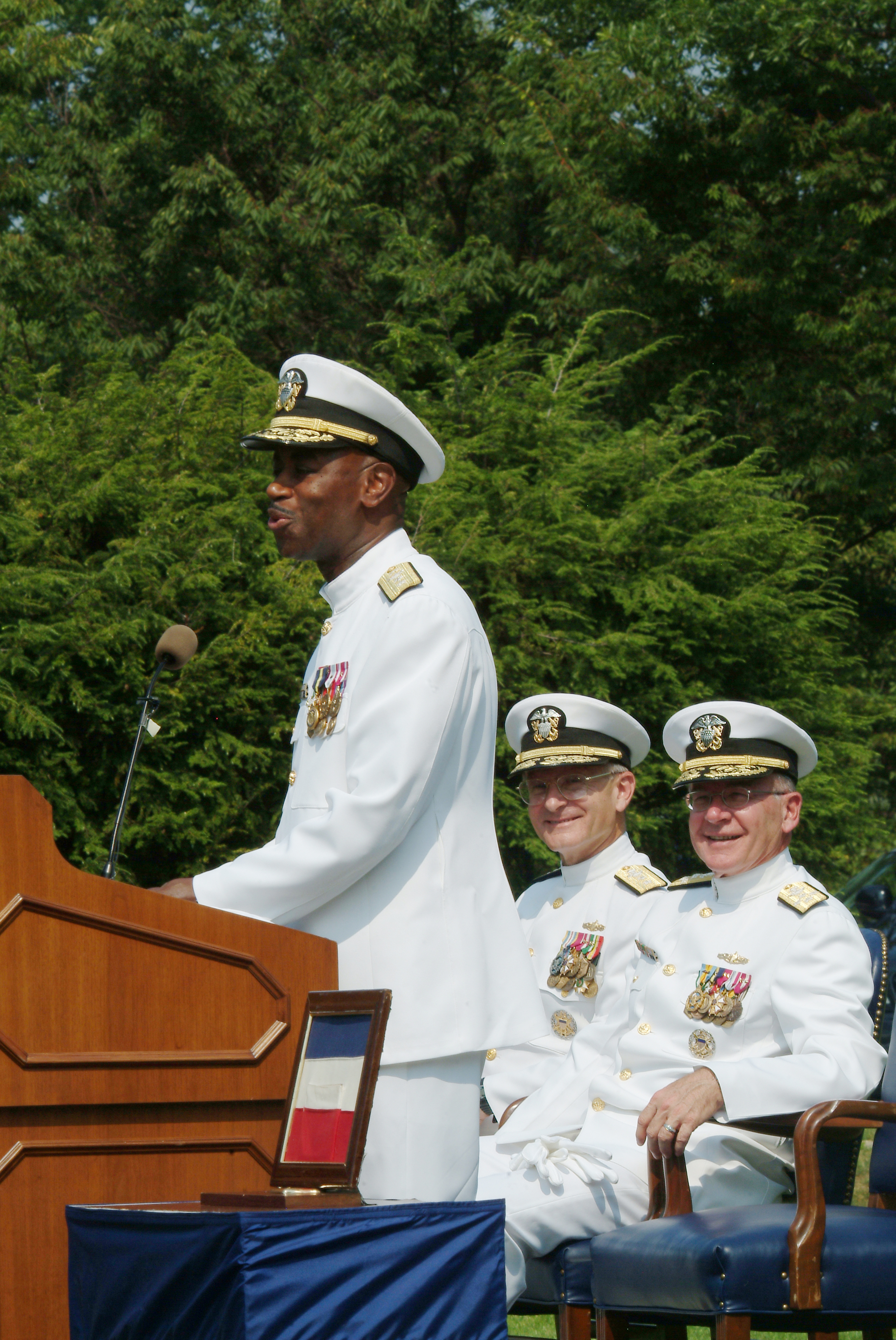 Washington D.C. (Aug. 15, 2003) -- Rear Adm. Barry C. Black, Chief of Navy Chaplains makes his remarks after receiving the Navy Distinguished Service Medal from Adm. Vern Clark, Chief of Naval Operations (CNO). Sitting center and next to the CNO is Rear Adm. Christopher E. Weaver, Commandant, Naval District Washington during the change of office and retirement ceremony held at the Washington Navy Yard. Rear Adm. Black retires from naval service as the 22nd Chief of Navy Chaplains and will continue to serve as the 62nd Chaplain of the United States Senate. U.S. Navy photo by Chief Photographer's Mate Johnny Bivera. (RELEASED)